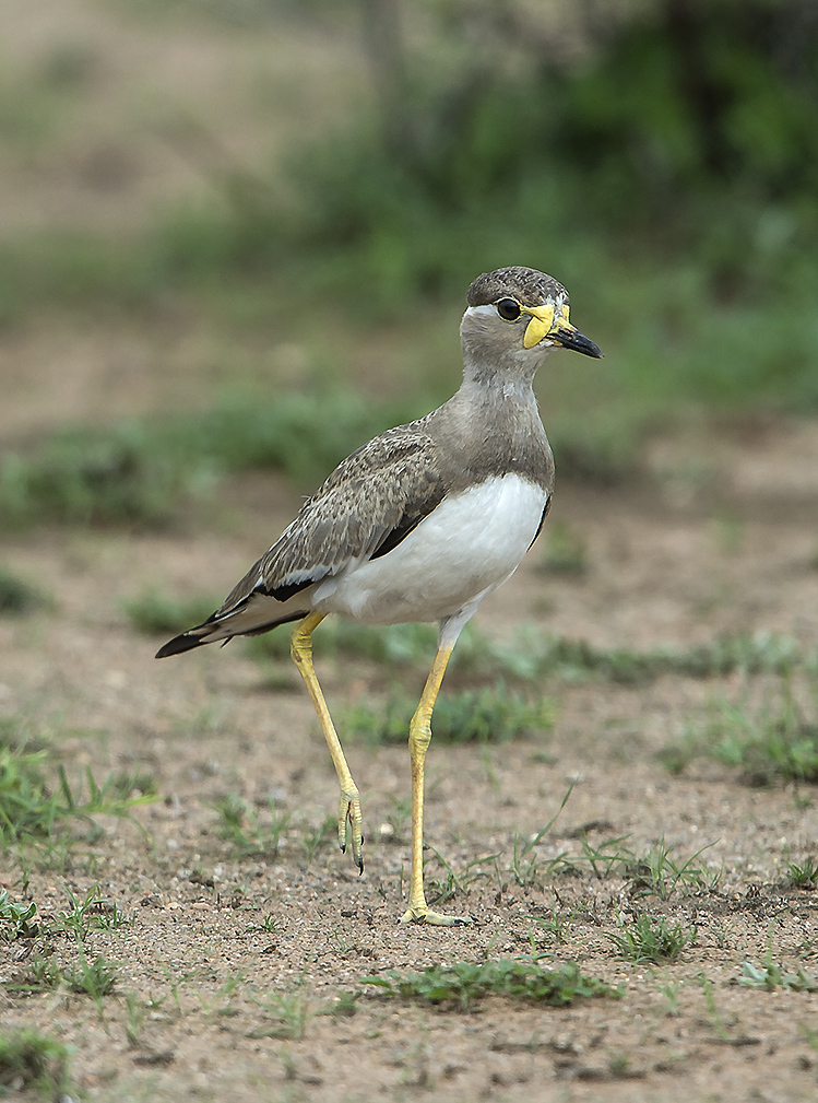 Yellow-wattled Lapwing Juvenile Sonkhaliya, Rajasthan 2014 August